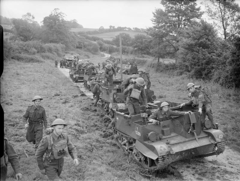 The British Army in the United Kingdom 1939-45 Troops from 3rd Battalion, Reconnaissance Corps, 3rd Infantry Division, 'de-bus' from their Universal carriers at Sturminster Newton in Dorset, 28 August 1941.